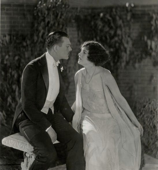 Hallam Cooley and Elaine Hammerstein in One Week of Love - publicity still (cropped)